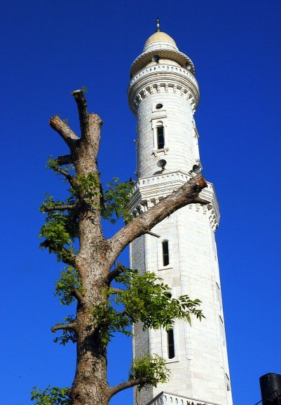 Taybe mosque